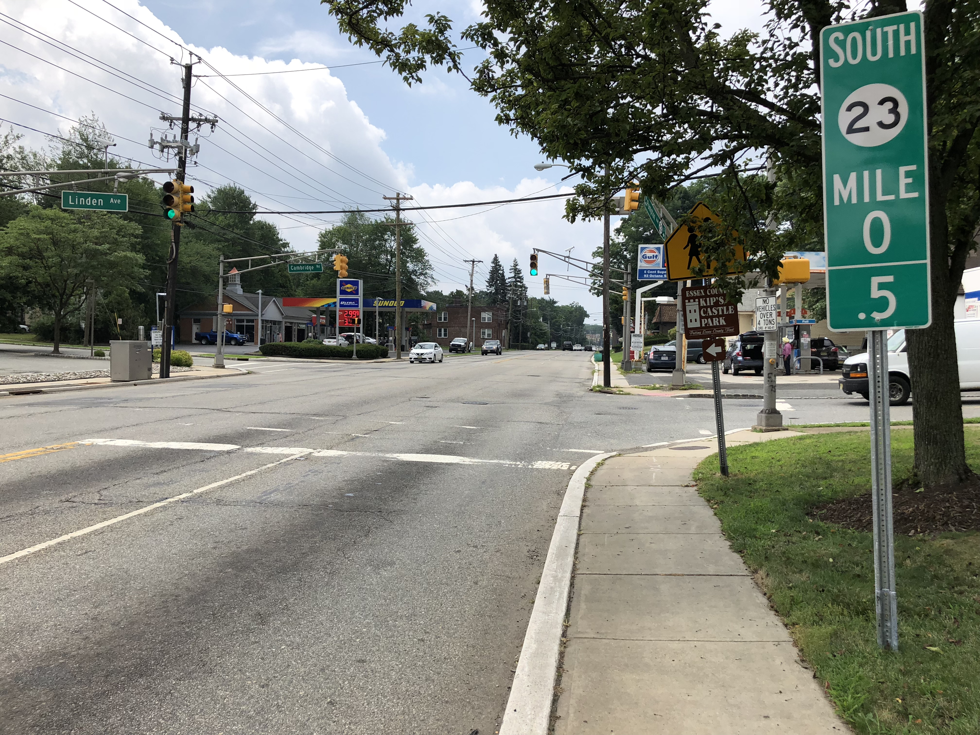 View south along New Jersey State Route 23 (Pompton Avenue) at Linden Avenue in Verona Township, Essex County, New Jersey